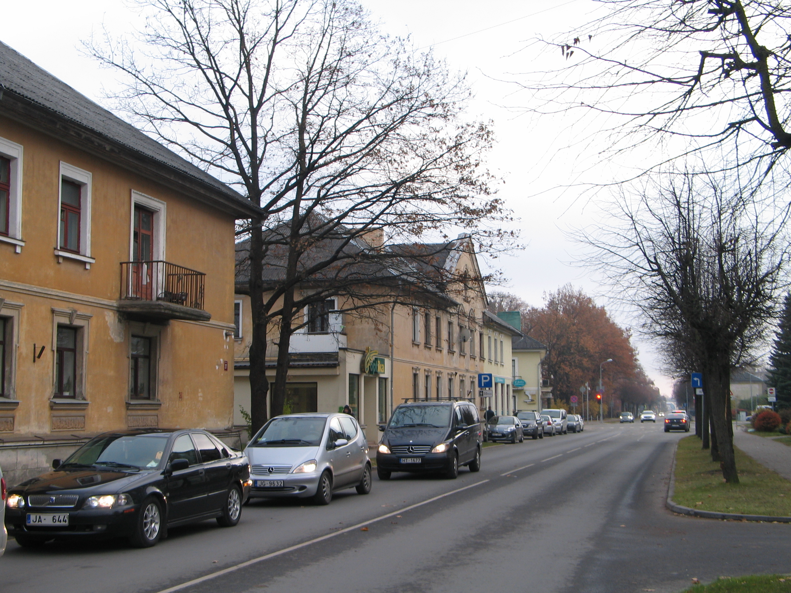 Mātera Street in Jelgava